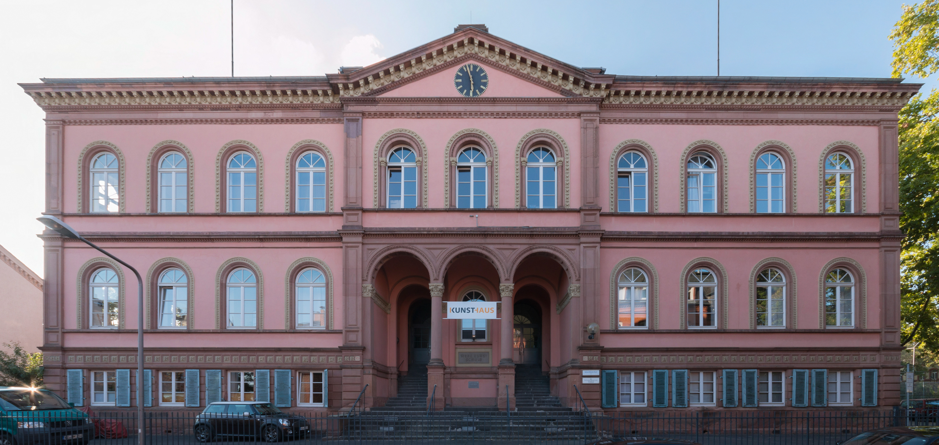 Kunsthaus Wiesbaden, Schulberg 10, Wiesbaden